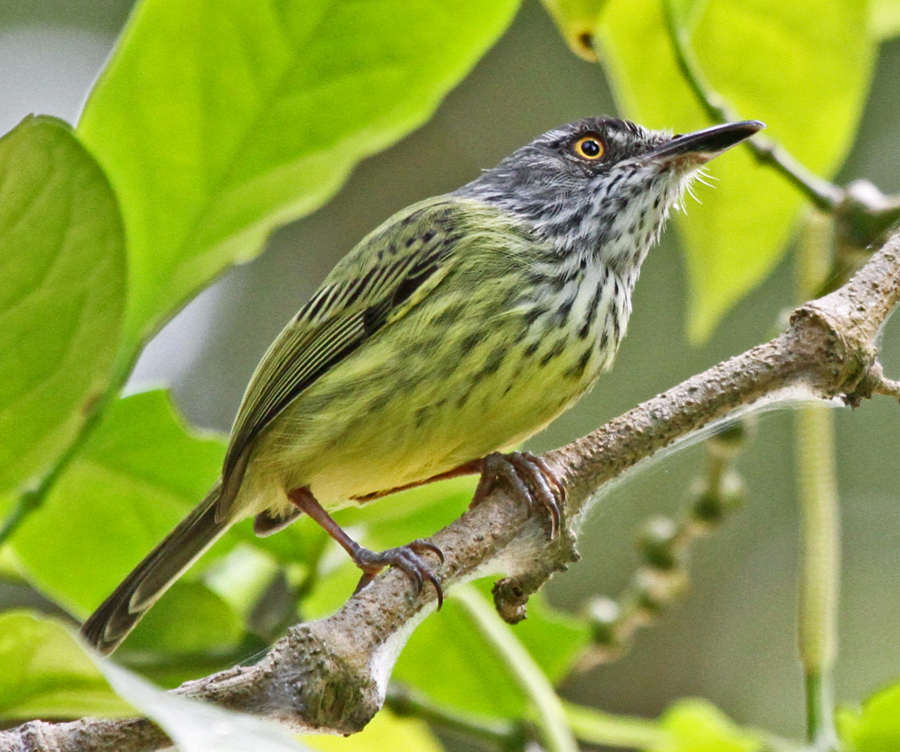 Todirostrum maculatum; Brazil, Belém, Pará.